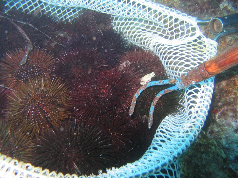 Sea hurchin fishing in Alghero Sardinia